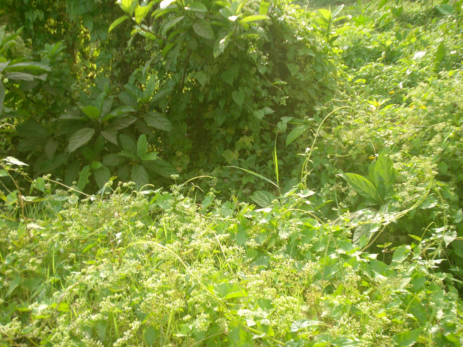 Name : Mikania micrantha Family : Asteraceae